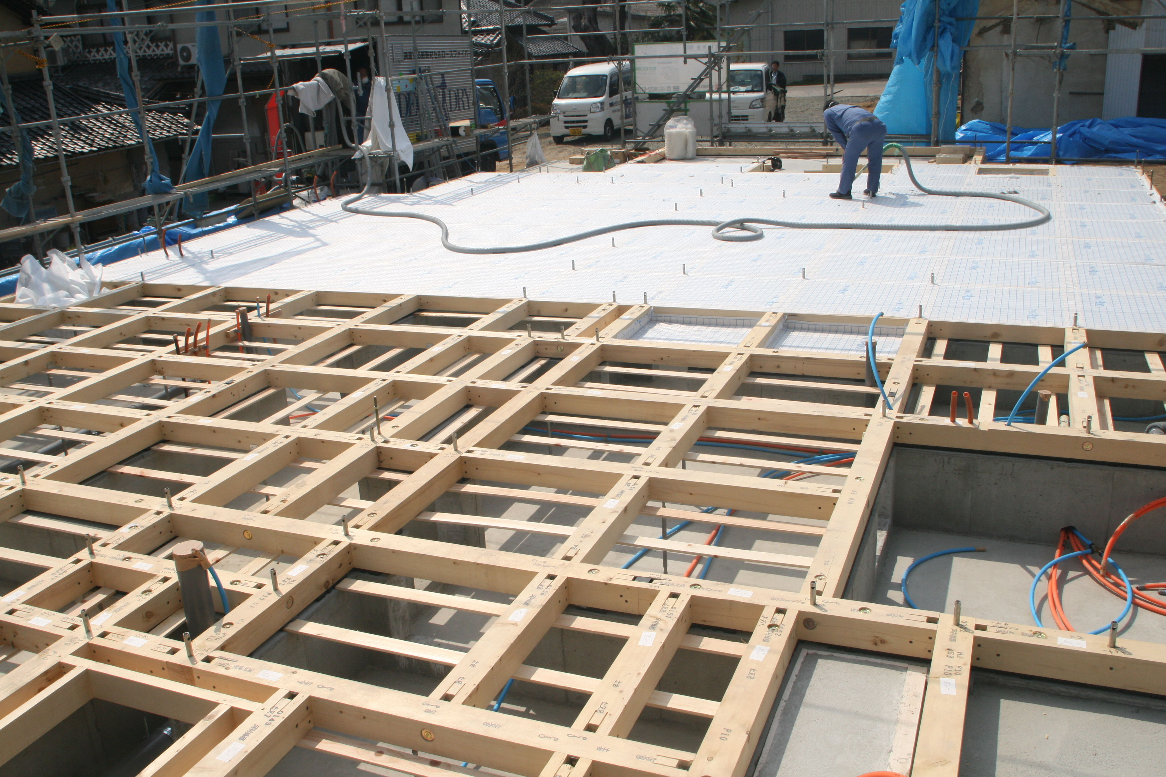 Cellulose insulation for floor